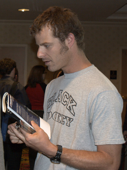 Matt Stone at The Amazing Meeting on January 20, 2007